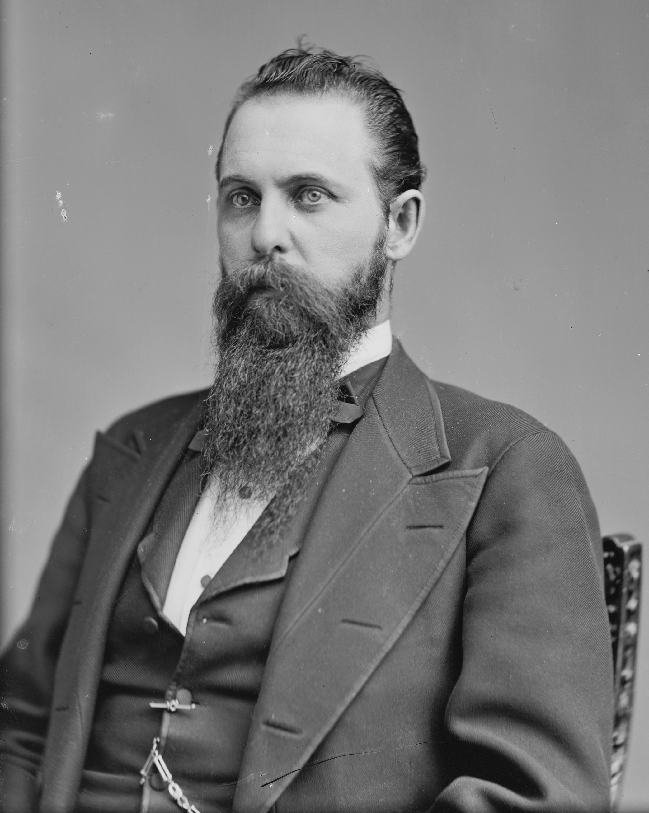 John H. Mitchell. Library of Congress description: "Mitchell, Hon. John Hipple of Oregon".